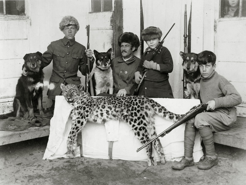 Yuri Jankowski centre with his son Valery (extreme left) , Arsenius (extreme right) after 1922 and before 1945 with Ussuri leopard. The other sibling may be Victoria.